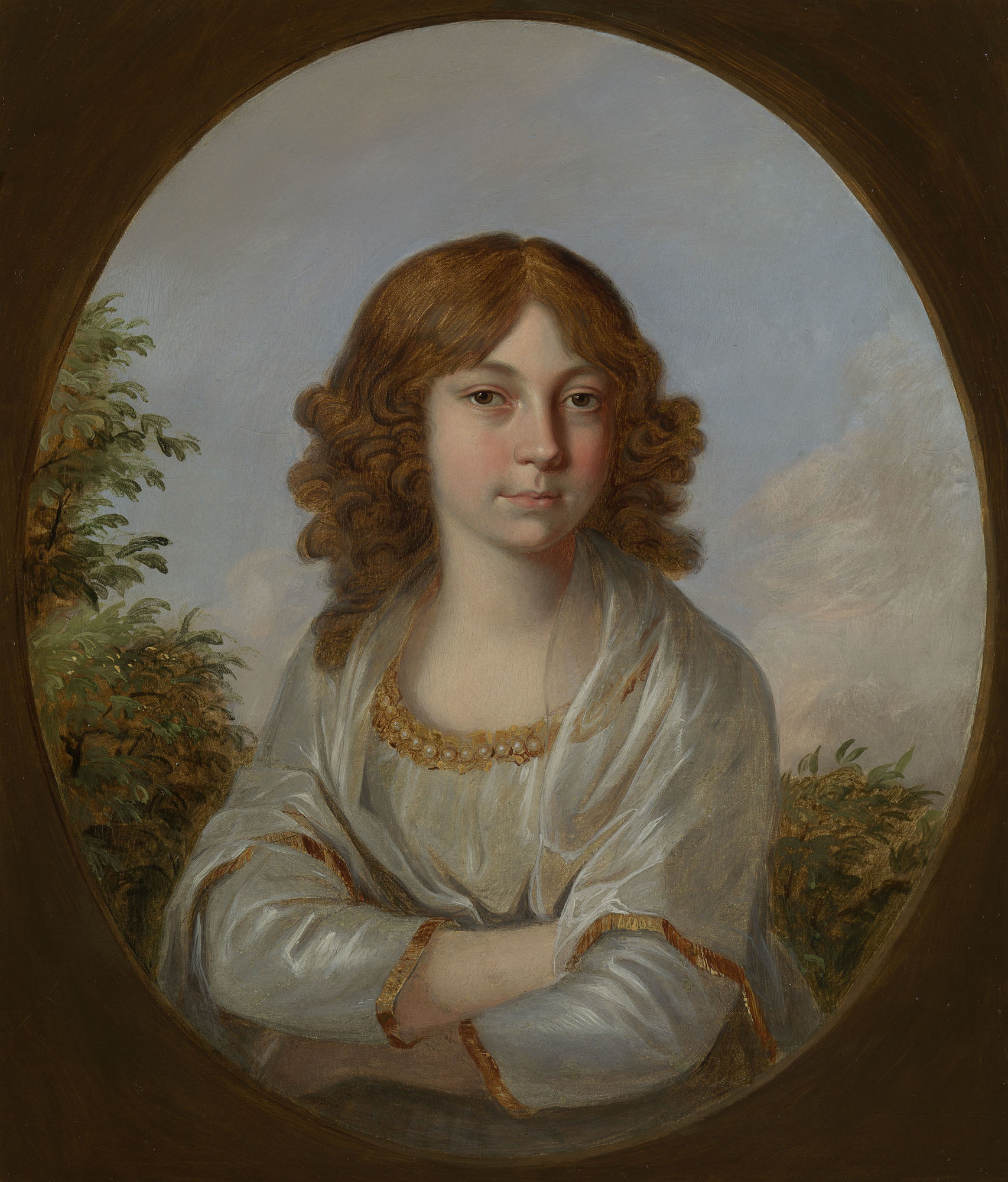 Princess Juliane of Saxe-Coburg-Saalfeld, later Grand Duchess Anna Feodorovna of Russia (1781-1860)